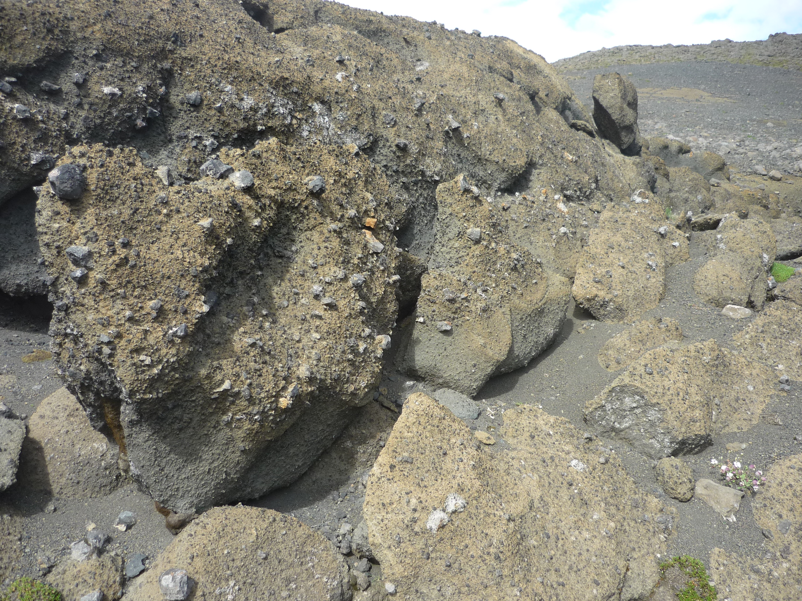 Hyaloclastite on Laki, Iceland